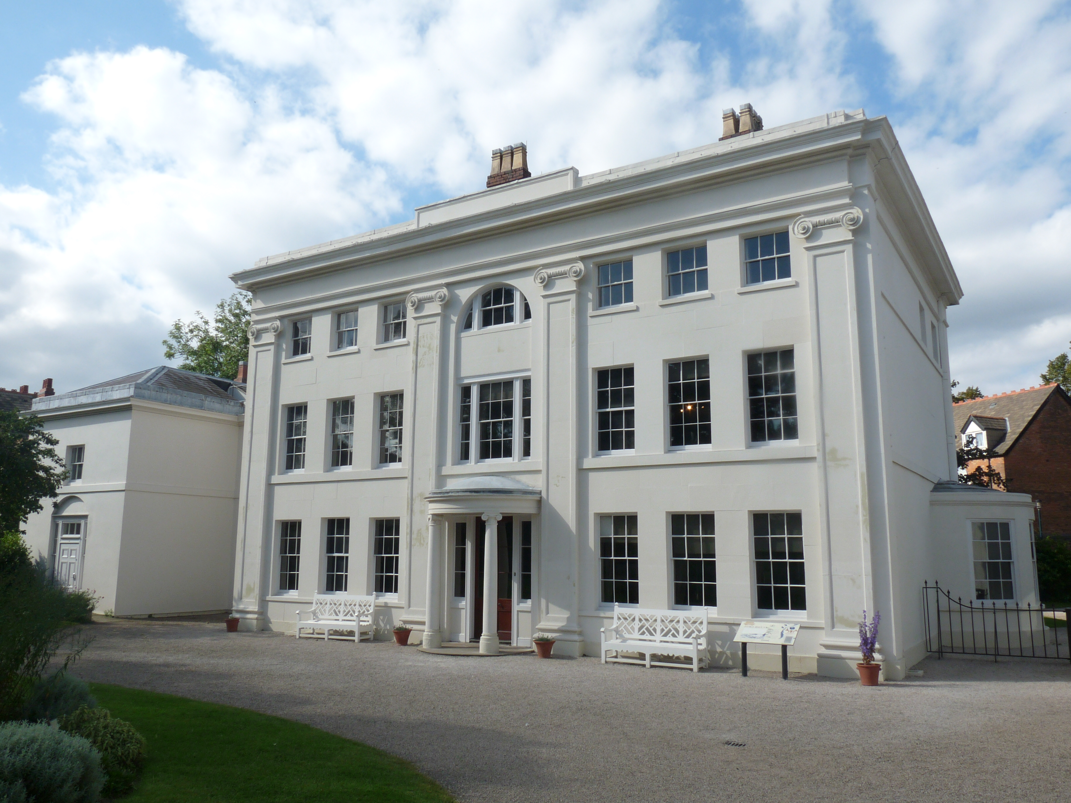 Soho House as seen in 2009.